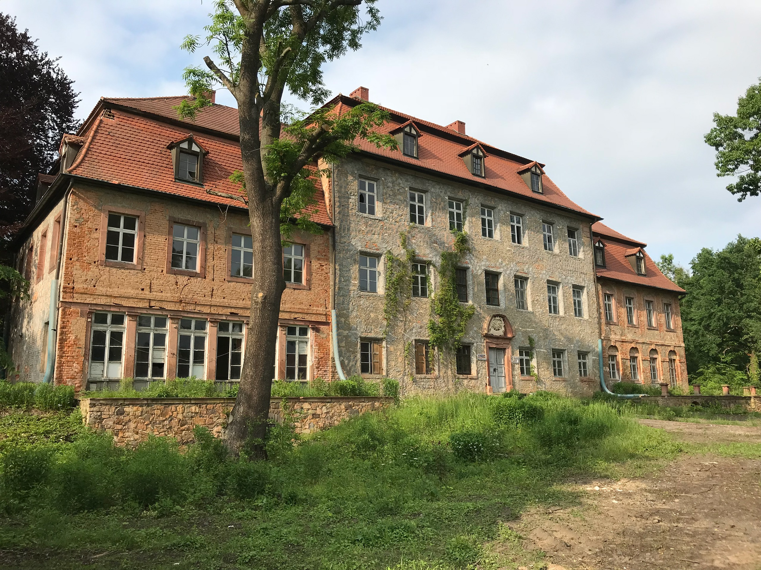 Castle Zedtlitz 2018